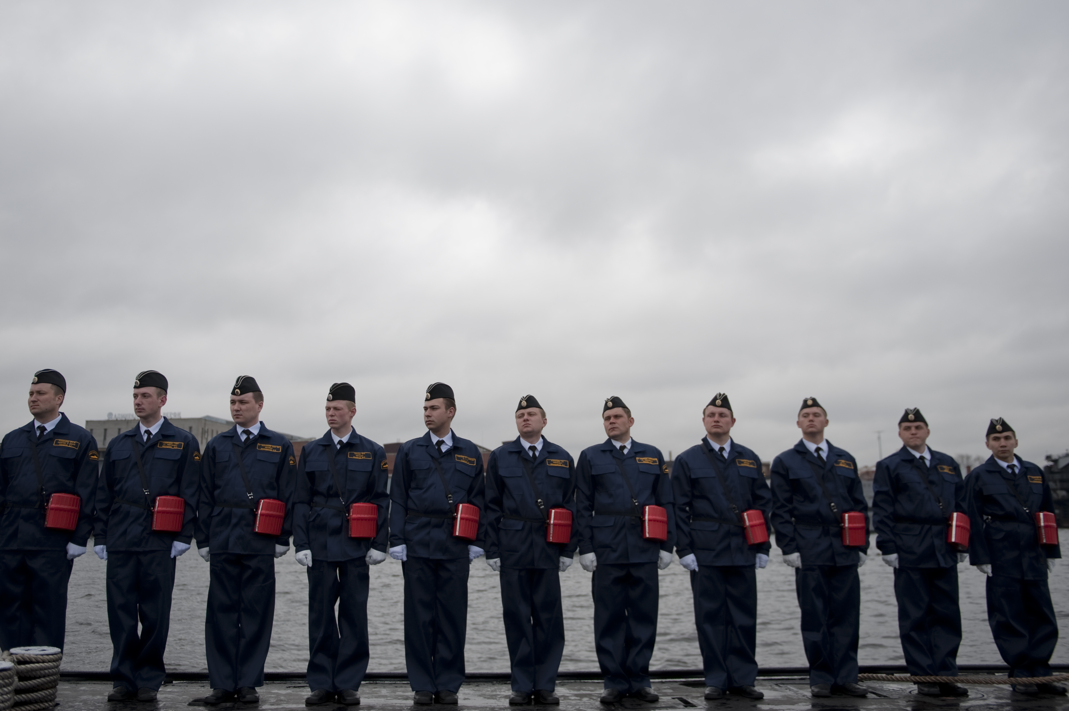 Crewmembers of the Russian Lada-Class submarine St. Petersburg stand at attention aboard their boat during the arrival of U.S. Navy. Adm. Mike Mullen, chairman of the Joint Chiefs of Staff, in St. Petersburg, Russia, May 7, 2011